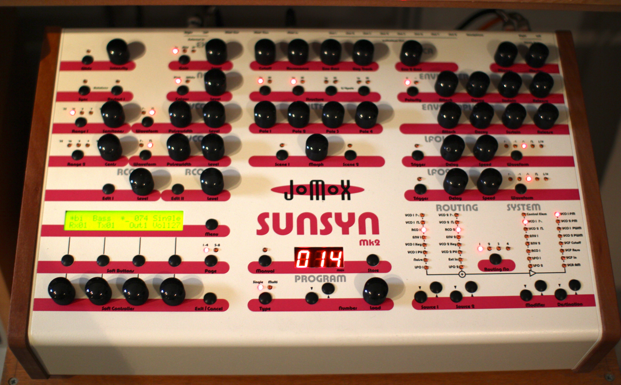 JoMoX SunSyn Mk2 — 8-voice true analog synthesizer asuckerforrandom11 Making of shots. "a sucker for random E.p." more infos at